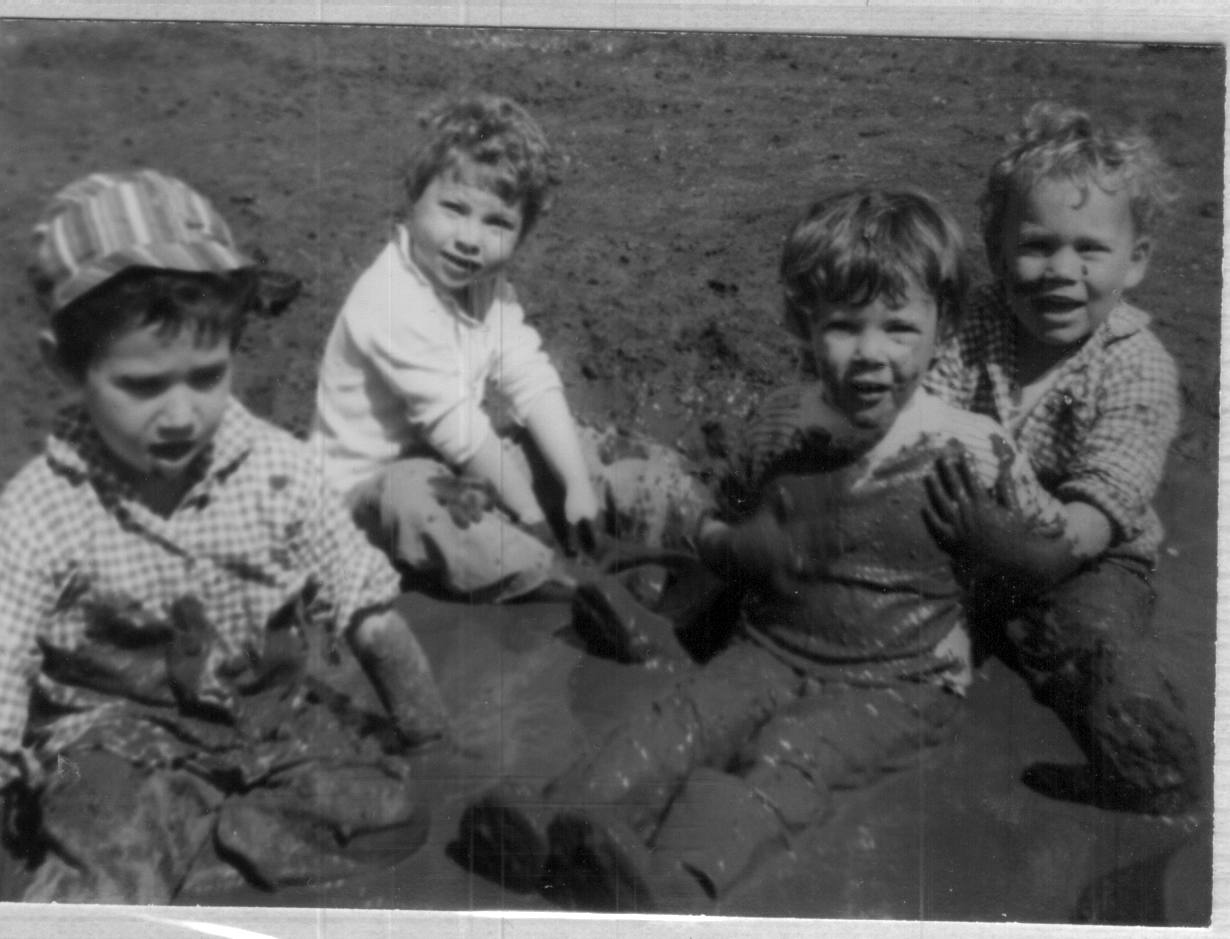 Education in the Golan Heights